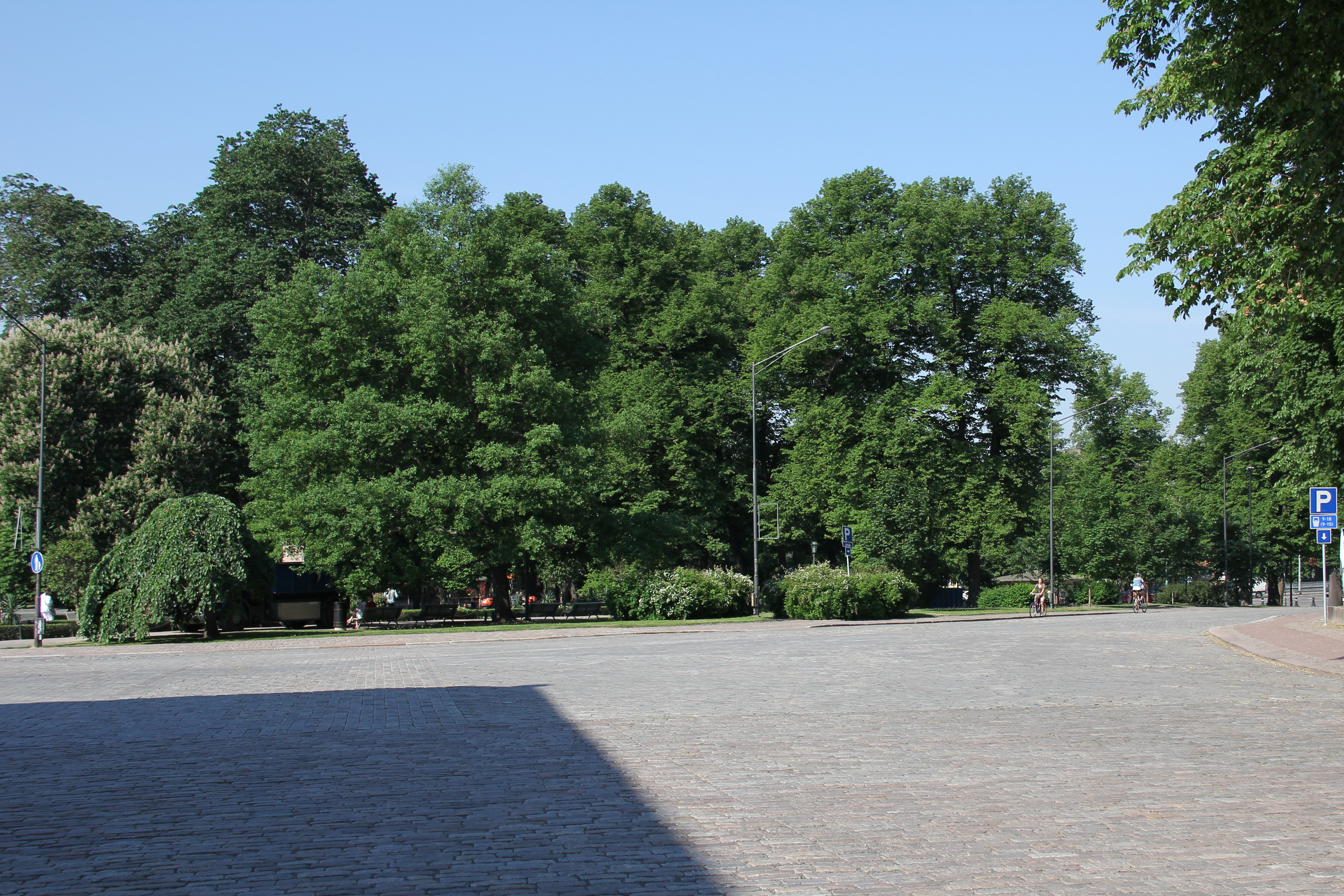 Brahenpuisto and Tuomiokirkontori, Turku, Finland.